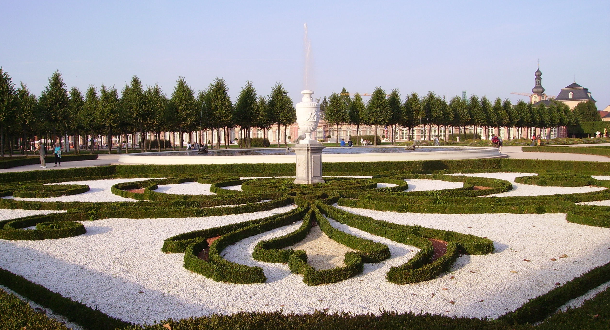 Broderien im Schwetzinger Schlossgarten